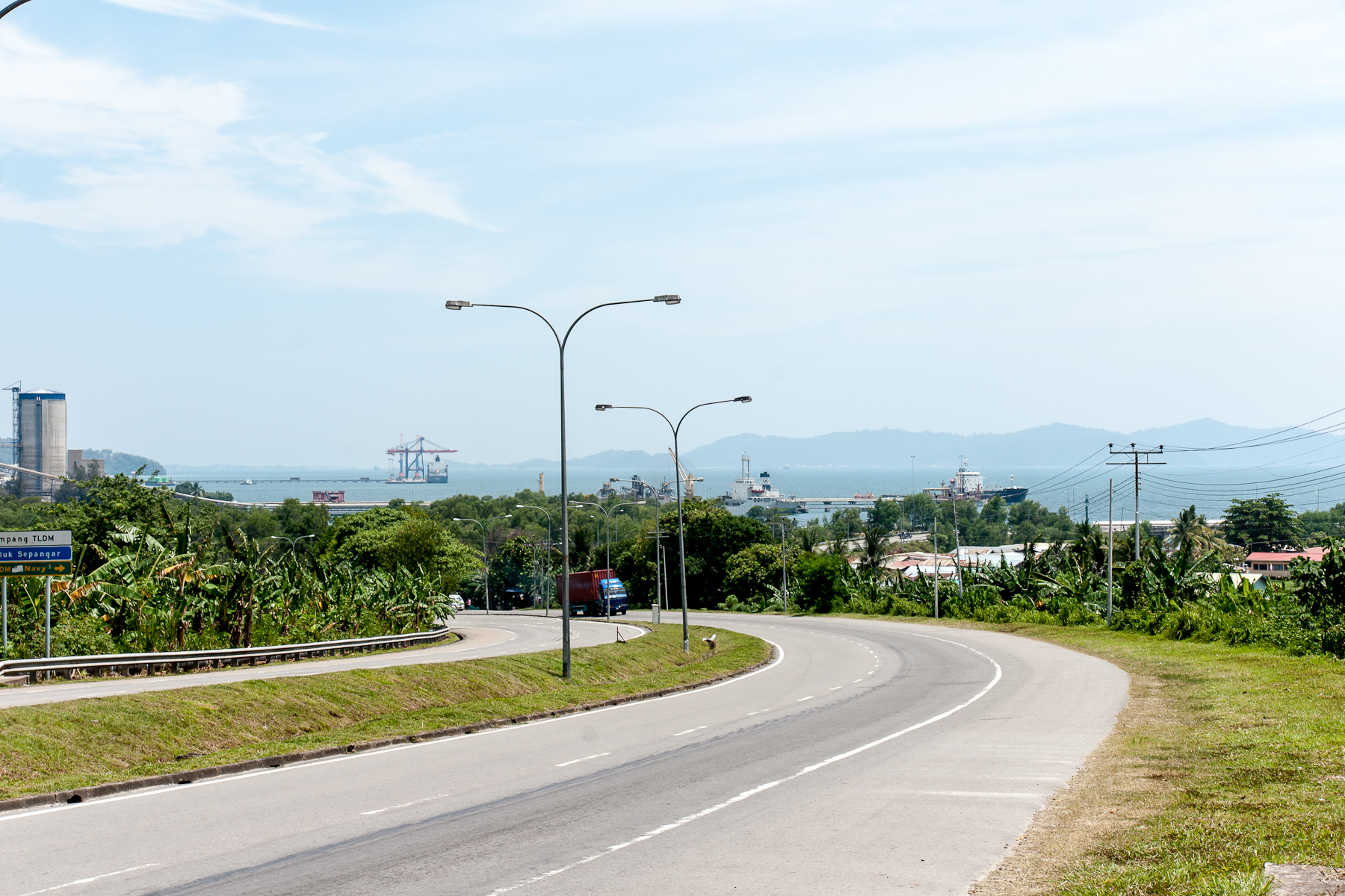 Sabah: Sepangar Bay from Kg. Gentisan